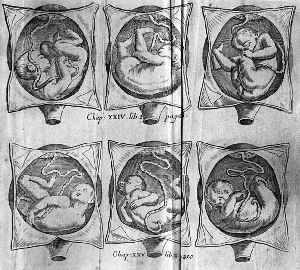 François Mauriceau (1637-1709): The Diseases of Women with Child, and in Child-bed, 1716.